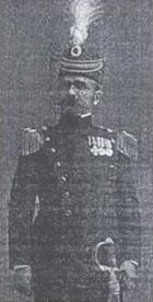 serbian revolutionary